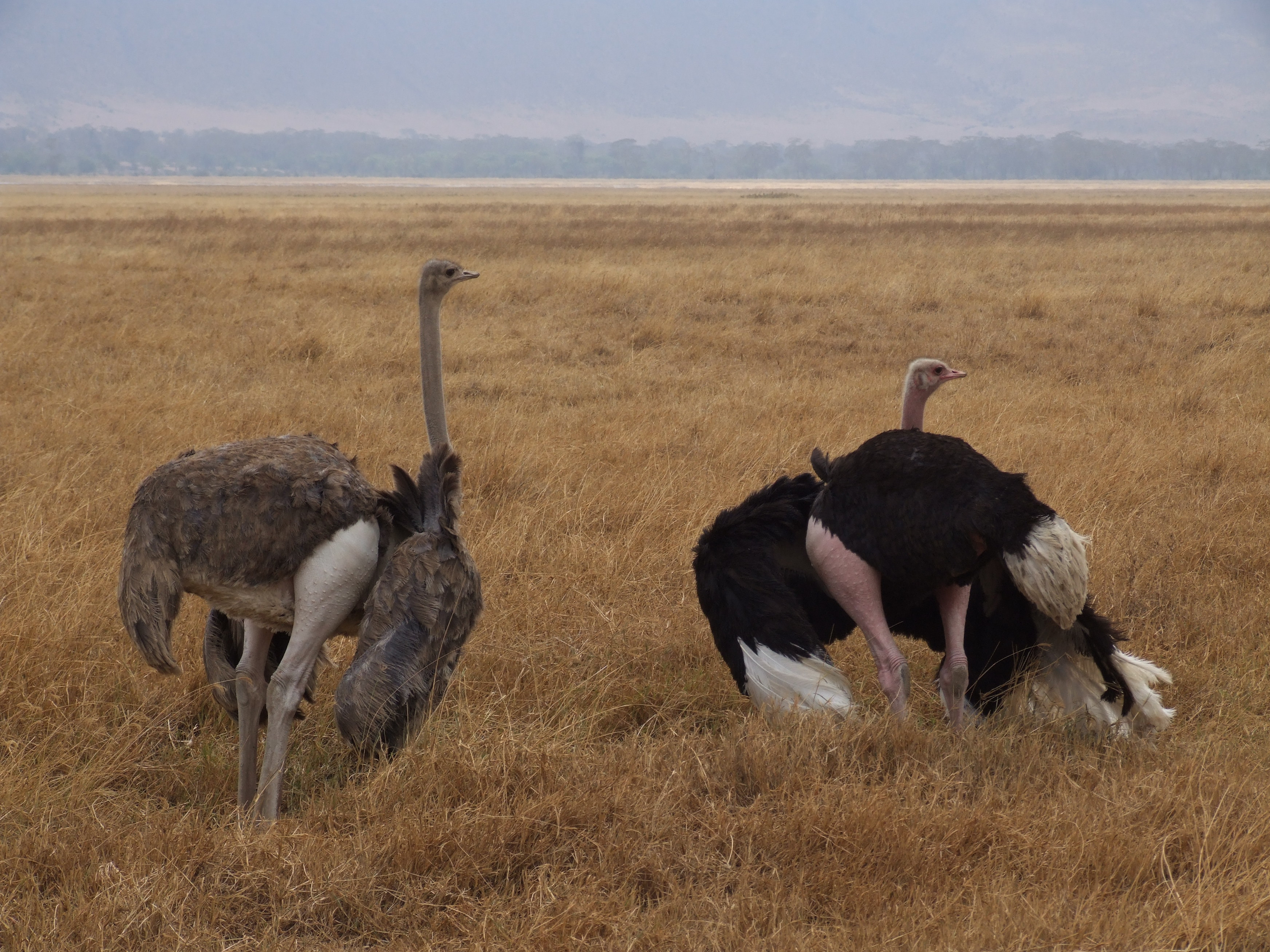 Male and female ostrich in Ngorongoro